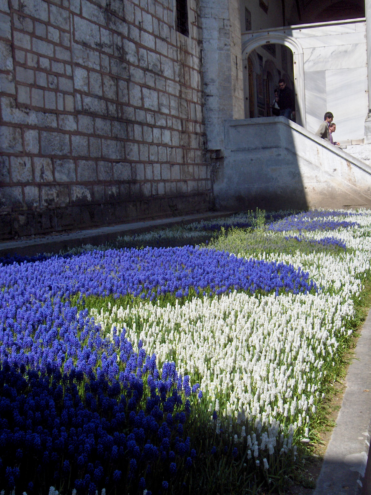 Garden with common grape hyacinth (Muscari botryoides), blue and white cultivars; Topkapı Palace, Istanbul, Turkey